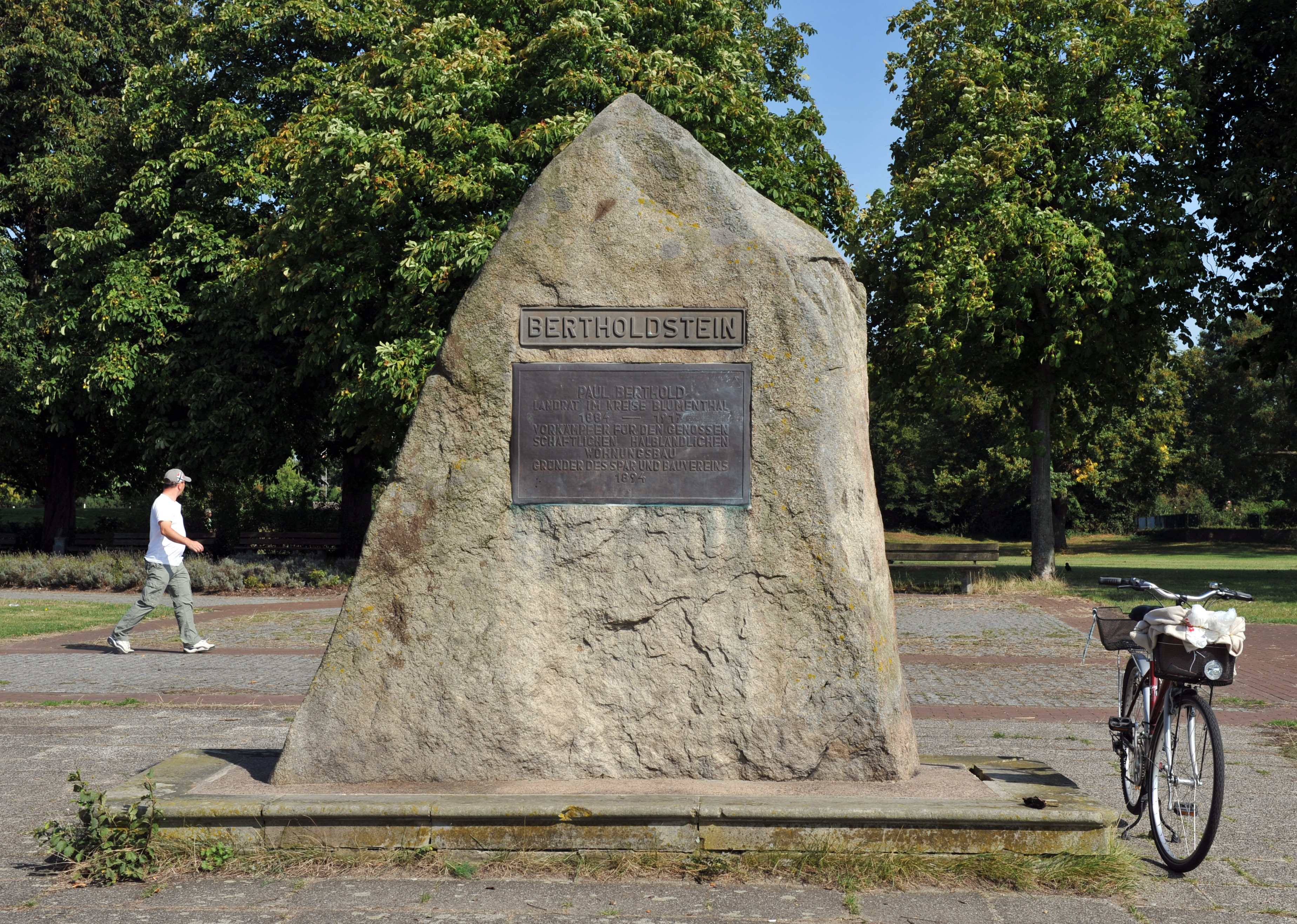 Glacial erratic Betholdstein in Blumenthal